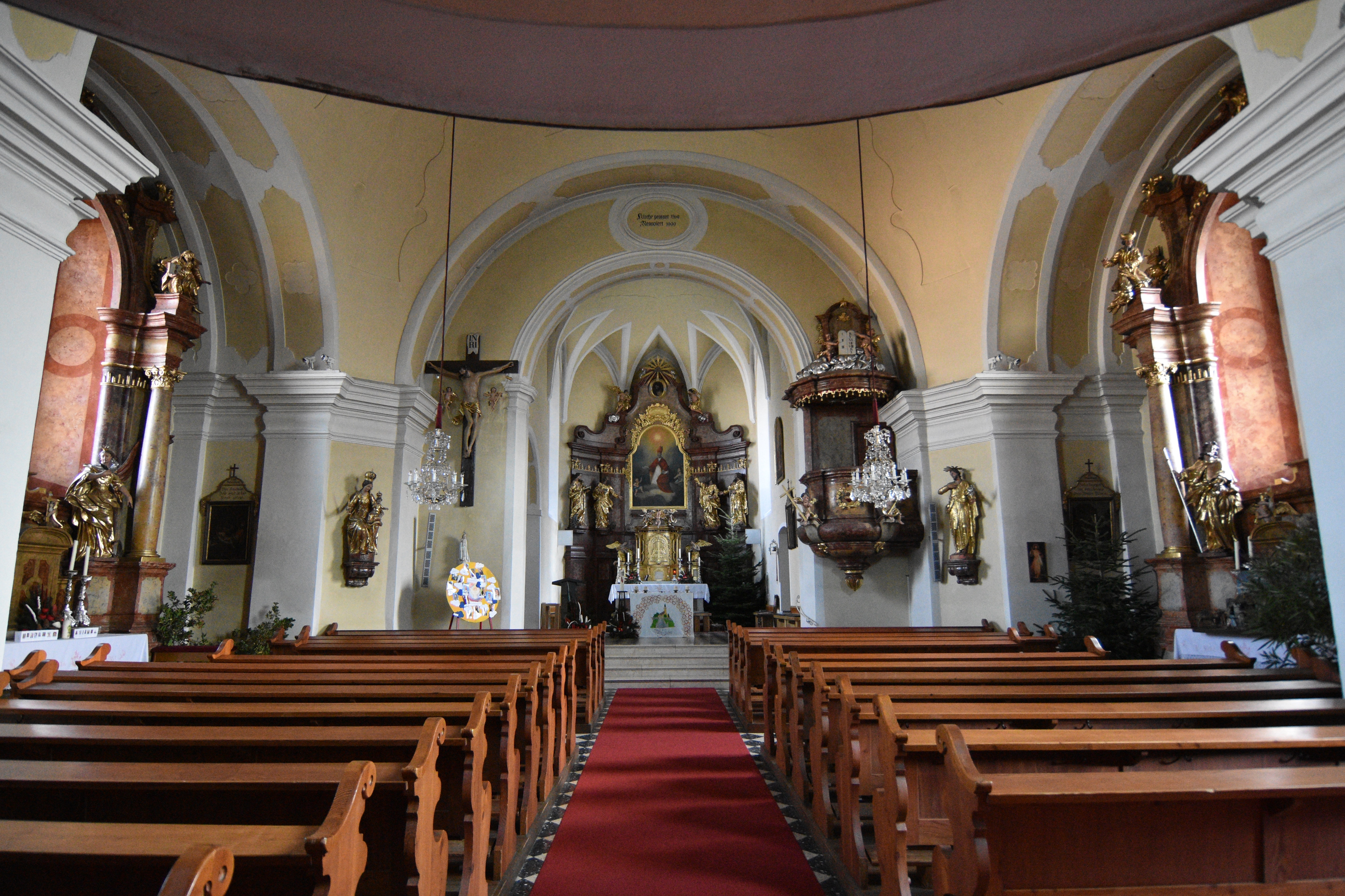 Church Pfarrkirche hl. Dionysius, Wolfsberg im Schwarzautal Interior